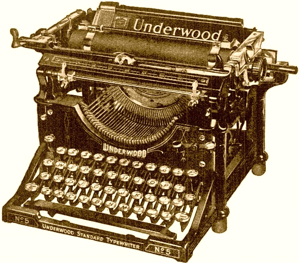 Underwood typewriter. Model No. 5